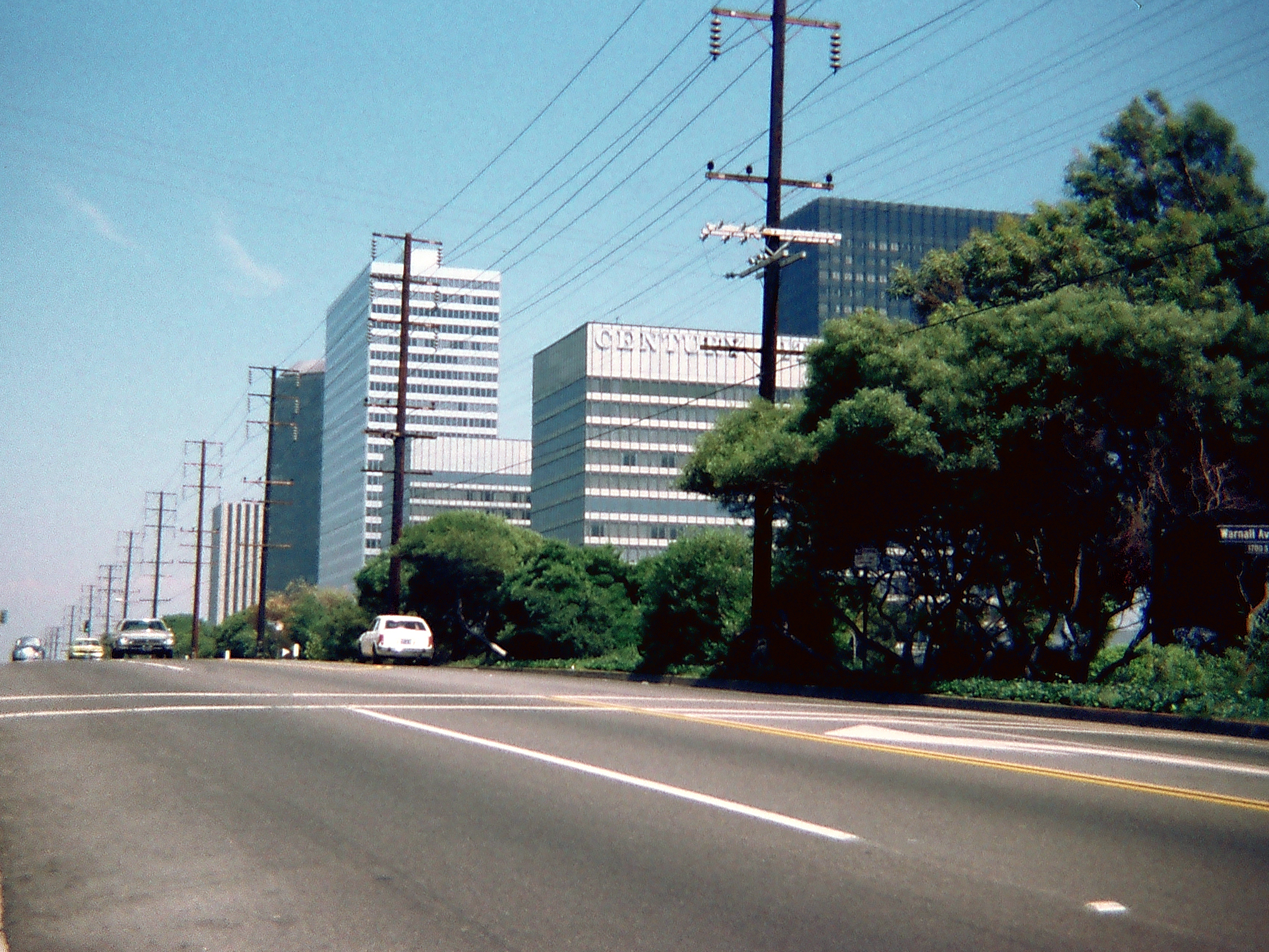 Century City as viewed from Santa Monica Boulevard, showing the original blue neon sign atop Gateway West.